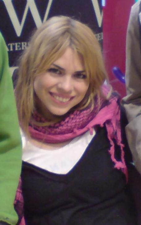 Billie Piper at the book signing of her autobiography, Growing Pains, in October 2006. This picture was taken by me, when my friend and I attended the book signing. It should be in the 'Billie Piper' article. Eve Harper 19:16, 18 August 2007 (UTC)